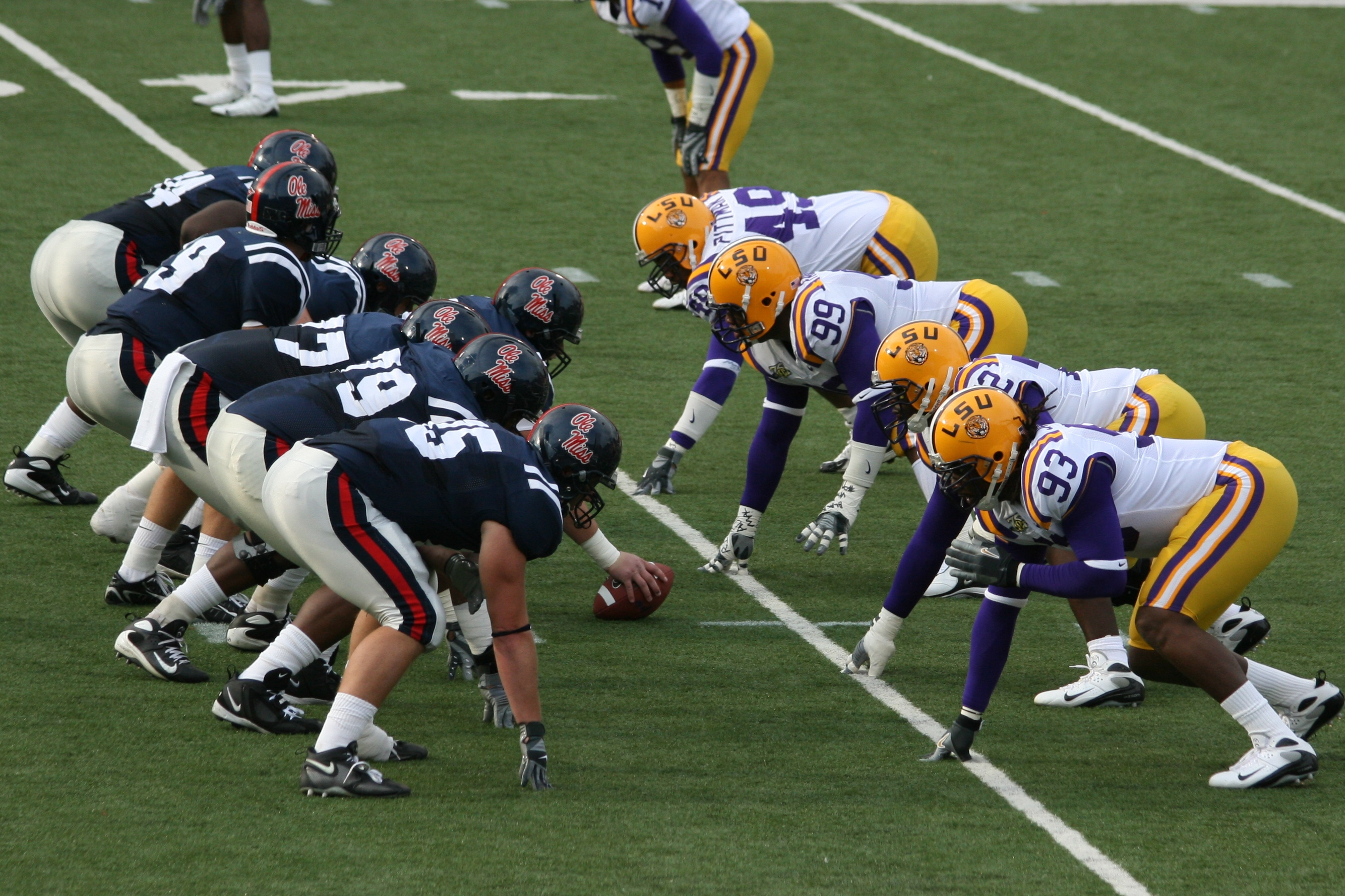 Line of scrimmage